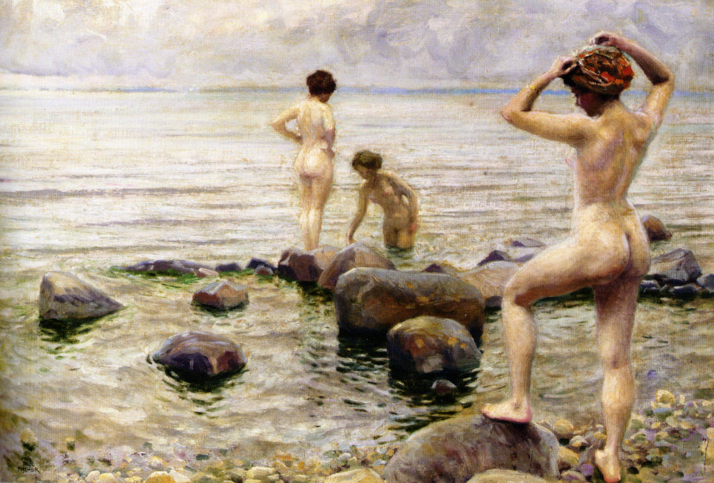 A Morning Dip